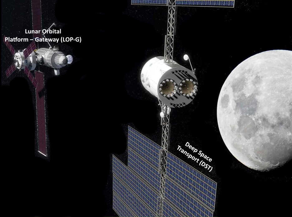 Artwork of the Deep Space Transport approaching the Lunar Orbital Platform – Gateway (LOP-G). Modification of this file.